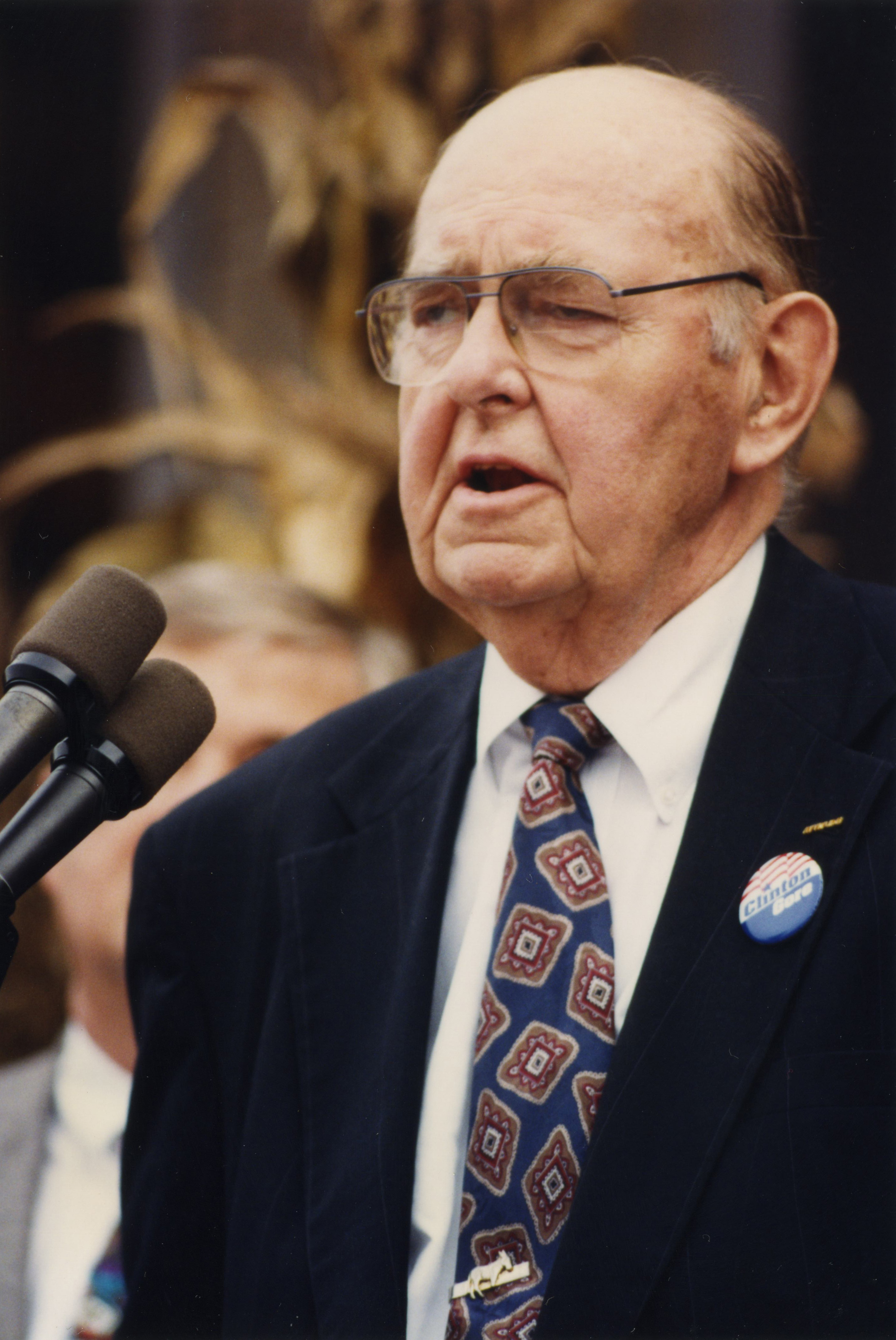 NC Agriculture Commissioner Jim Graham appears at a campaign rally for Vice Presidential Candidate Al Gore at a Farmer's Market in Raleigh, NC on October 8, 1992.